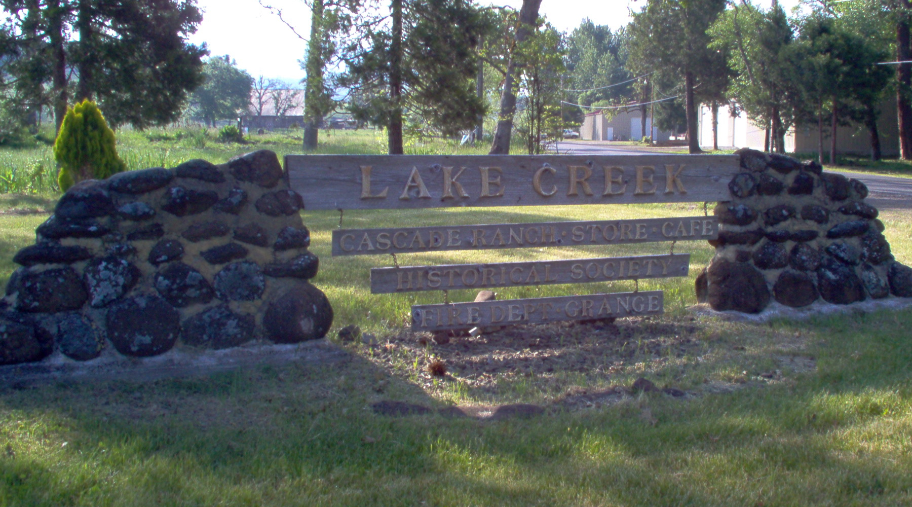 I took this picture myself. Zab 17:07, 16 May 2007 (UTC)